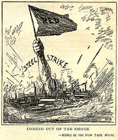 newspaper cartoon depicting